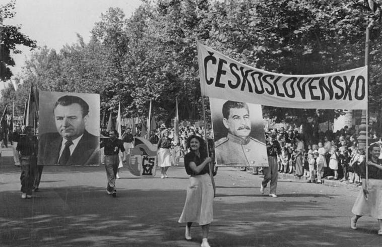 August 1949: International Student Festival in Budapest. A group of Czech youth in the final demonstration